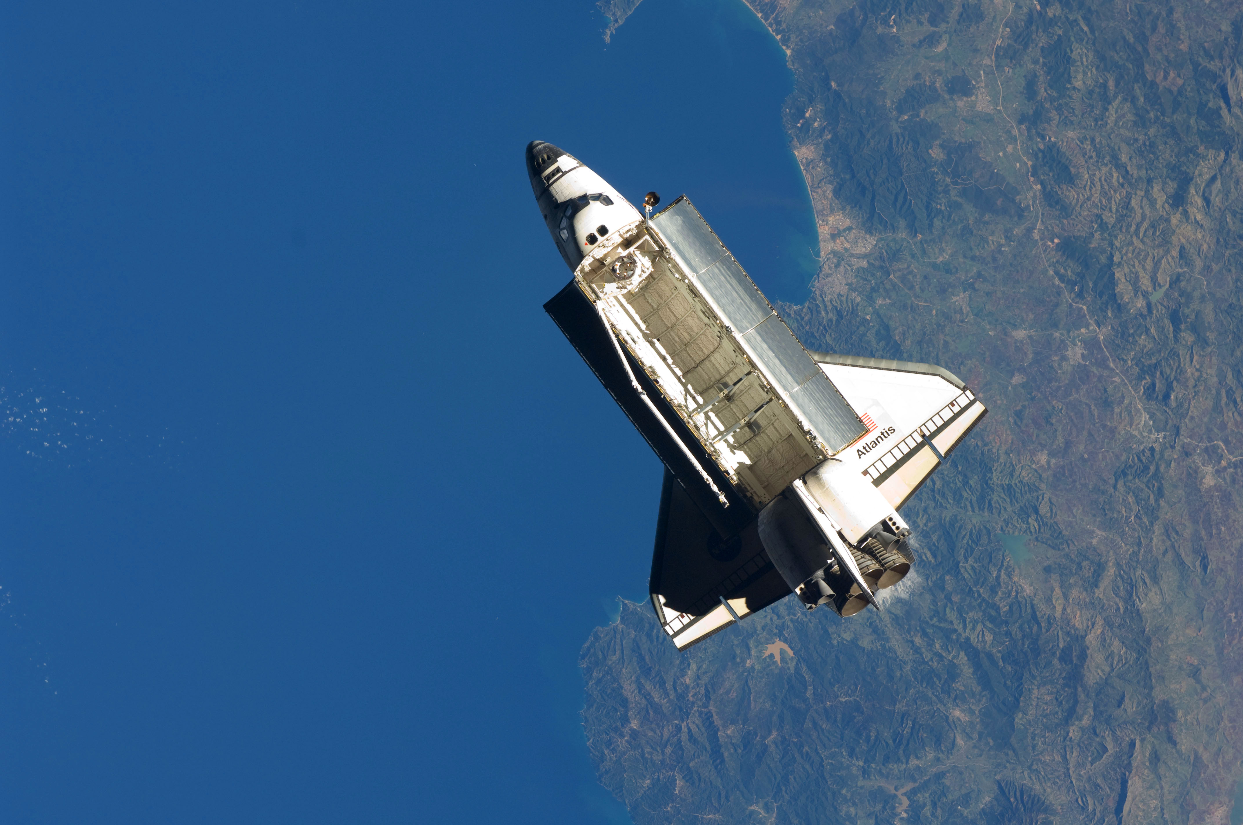 Seen over the Mediterranean Sea, near the Algerian coast (Skikda city), the space shuttle Atlantis is featured in this image photographed by the Expedition 21 crew on the International Space Station soon after the shuttle and station began their post-undocking separation. Undocking of the two spacecraft occurred at 3:53 a.m. (CST) on Nov. 25, 2009.